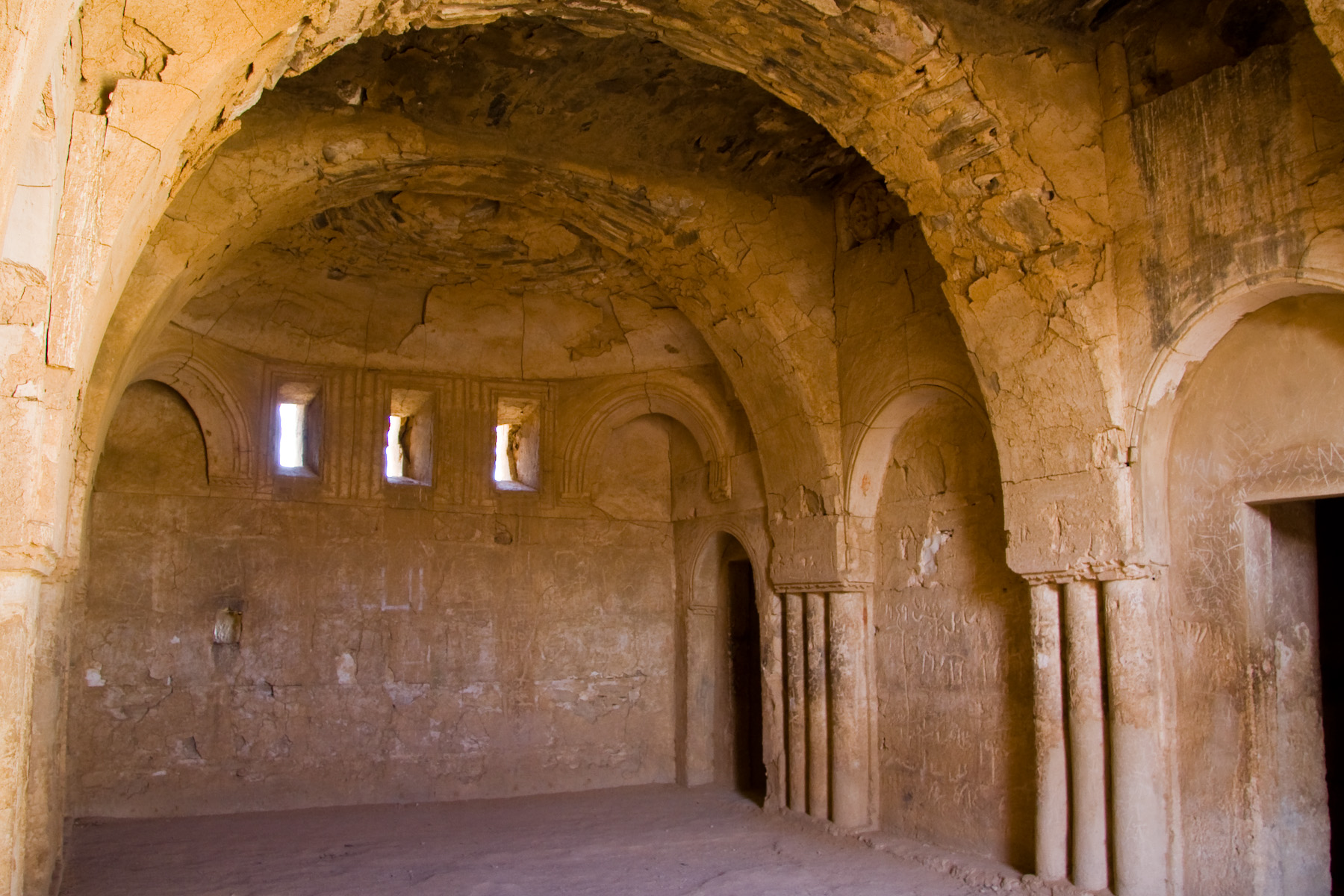 An interior of Qasr Haraneh in Jordan.